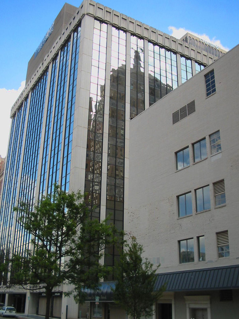 Reflection of a skycraper in another building in downtown Oklahoma City.